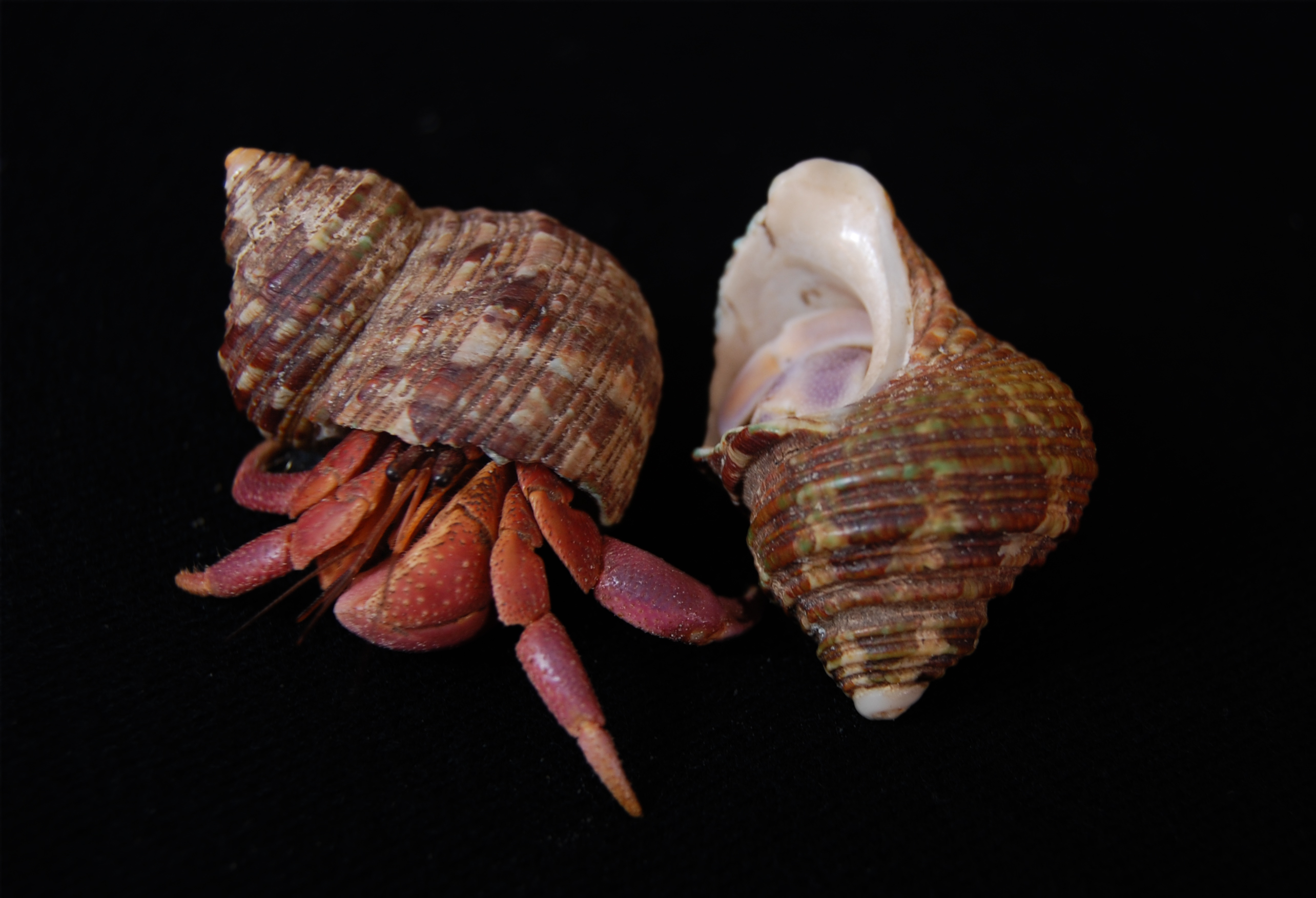 Hermit crabs are decapod crustaceans of the superfamily Paguroidea.[1][2] Most of the 1100 species possess an asymmetrical abdomen which is concealed in an empty gastropod shell that is carried around by the hermit crab.